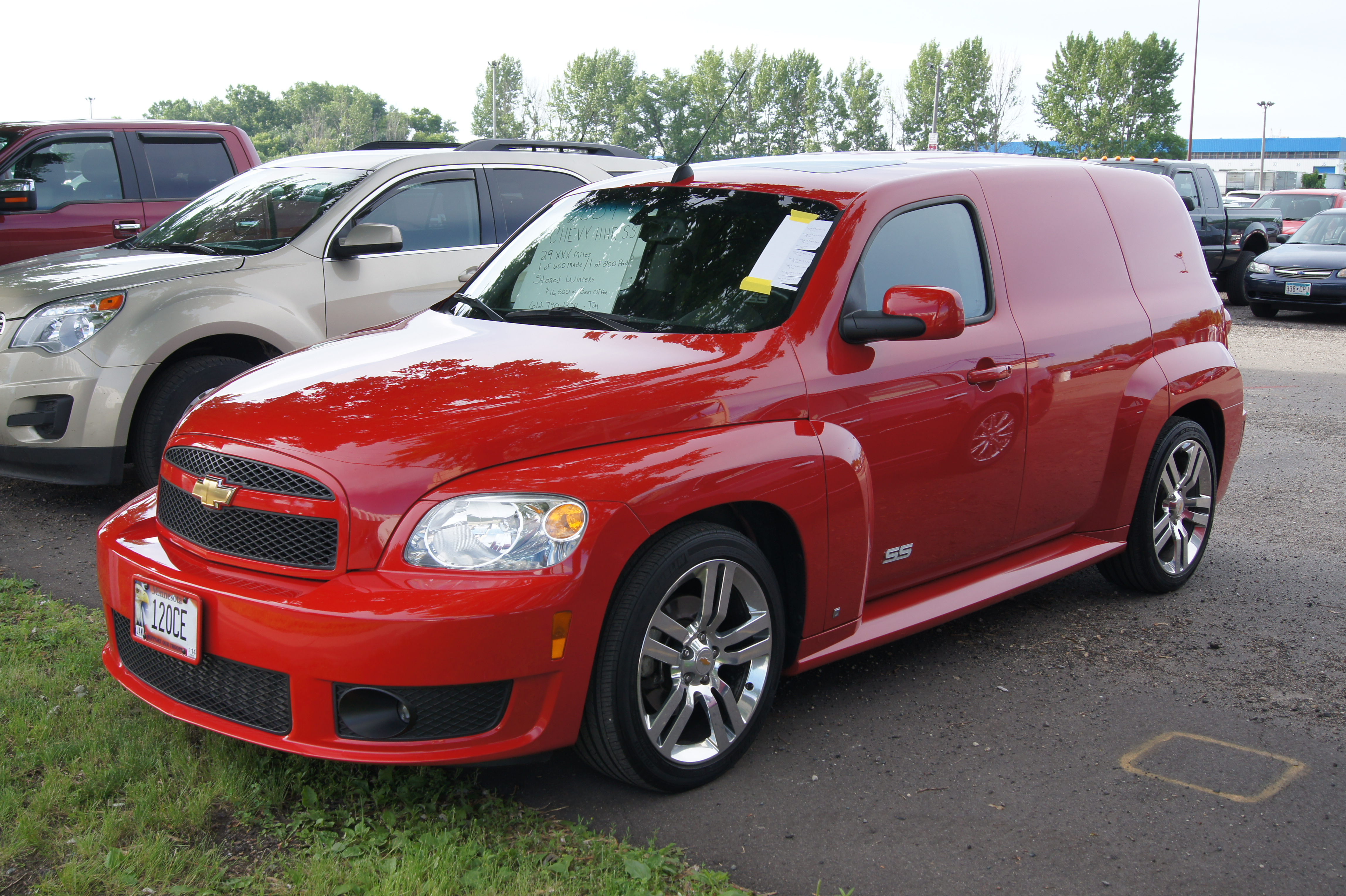 MSRA “BACK TO THE 50′s” 41st Annual June 20-22, 2014 State Fairgrounds St. Paul Minnesota More Car Pictures